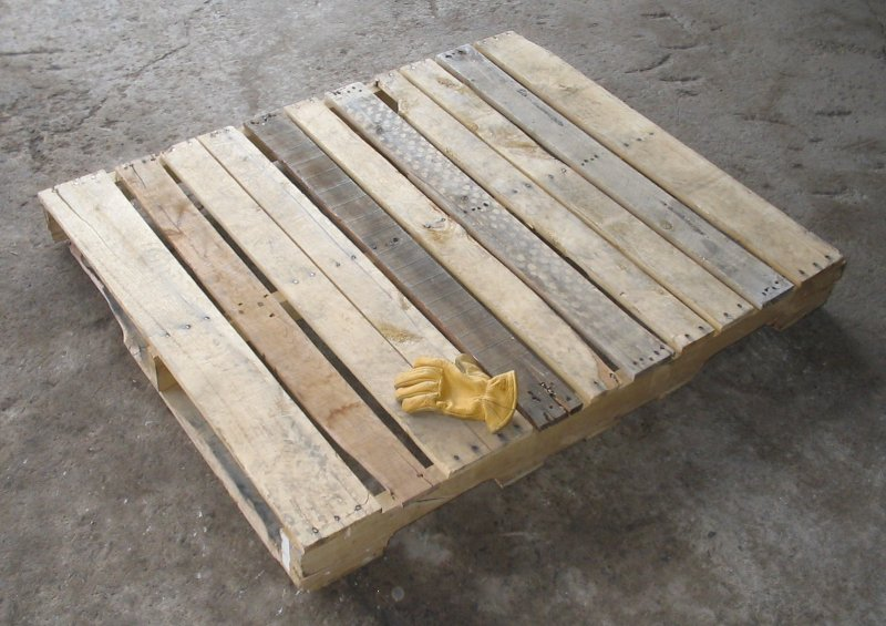 A wooden pallet measuring 4 feet (1.2 m) by 40 inches (1.0 m) by 5 inches (13 cm). The glove is a lined elkskin work glove, size Medium.